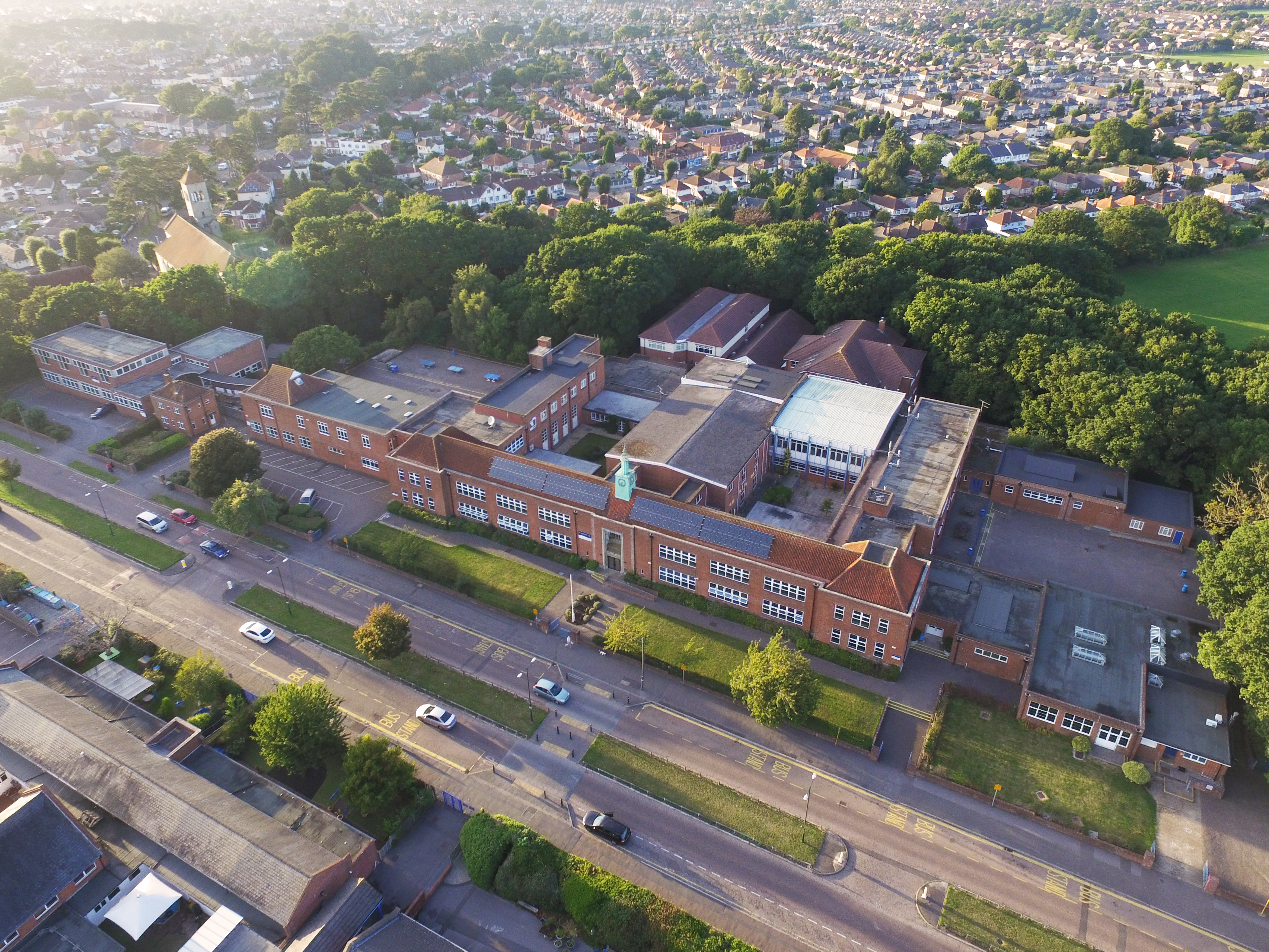 An aerial view of Charminster Hill towards Bournemouth School.